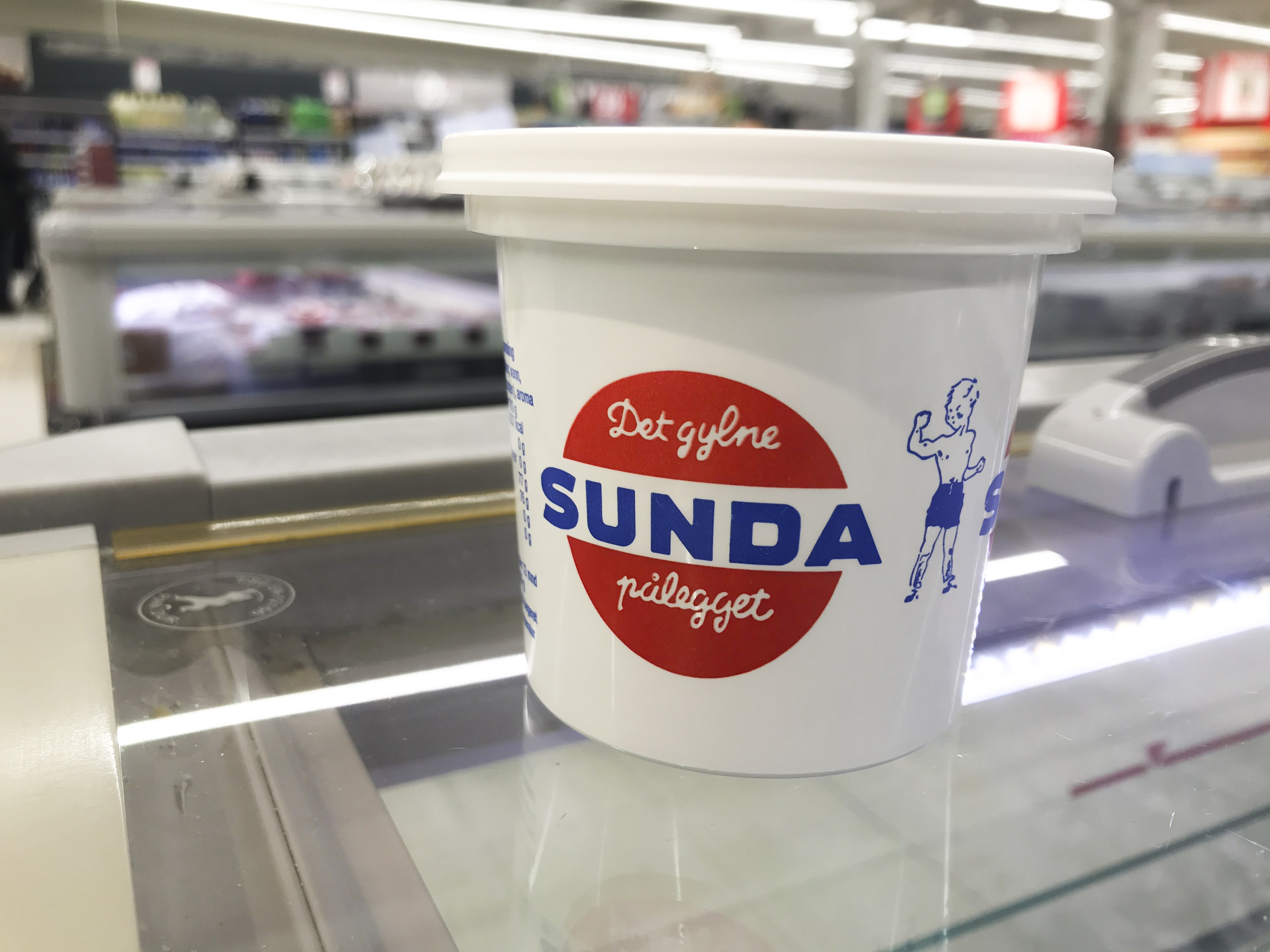 Sunda